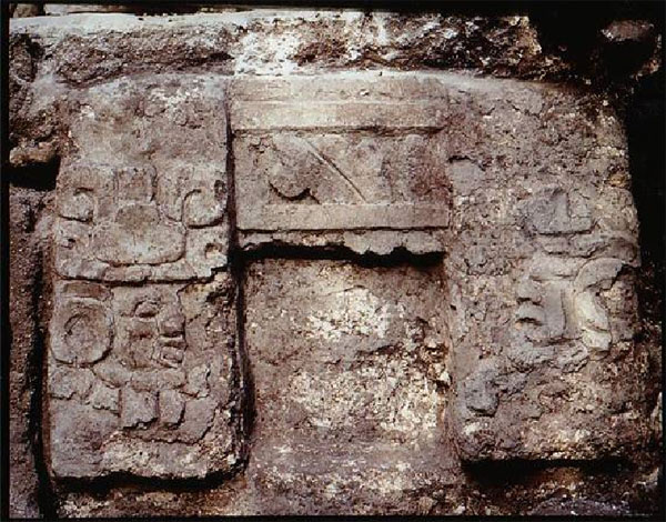 A set of masks depicting one of the early Classic Maya kings from the site of Blue Creek, Belize.